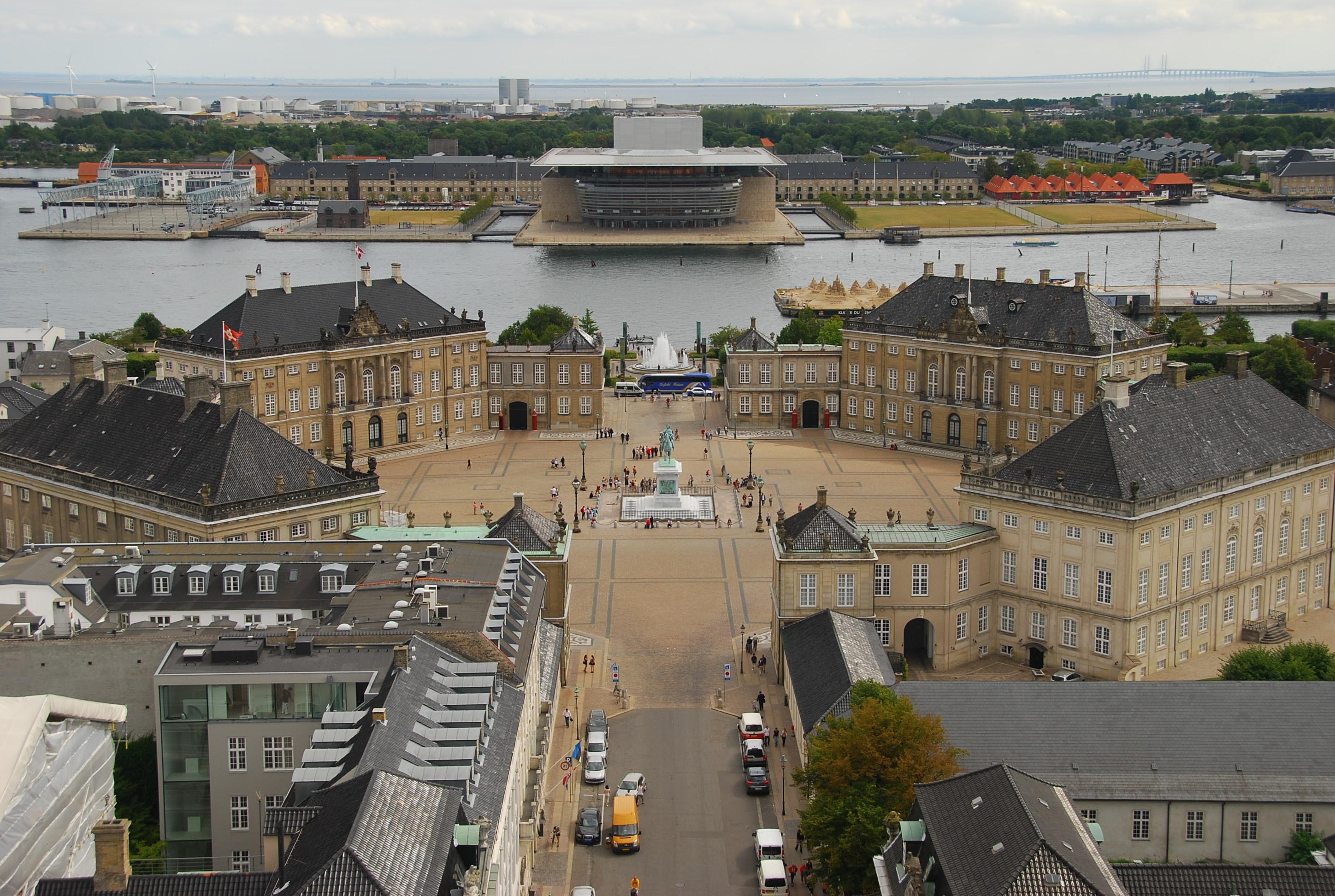 Amalienborg Palace with the equestrian statue of King Frederik V, Copenhagen Opera House in the background, and the Øresund Bridge in distant horizon. Copenhagen, Denmark.